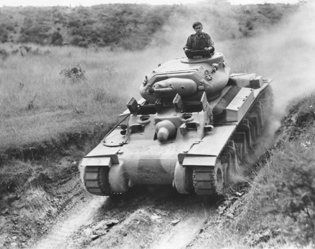 AWM photo caption: A prototype Australian AC1 Sentinel Cruiser Tank MkI negotiating a gully during trials at the Villawood test track in Sydney.